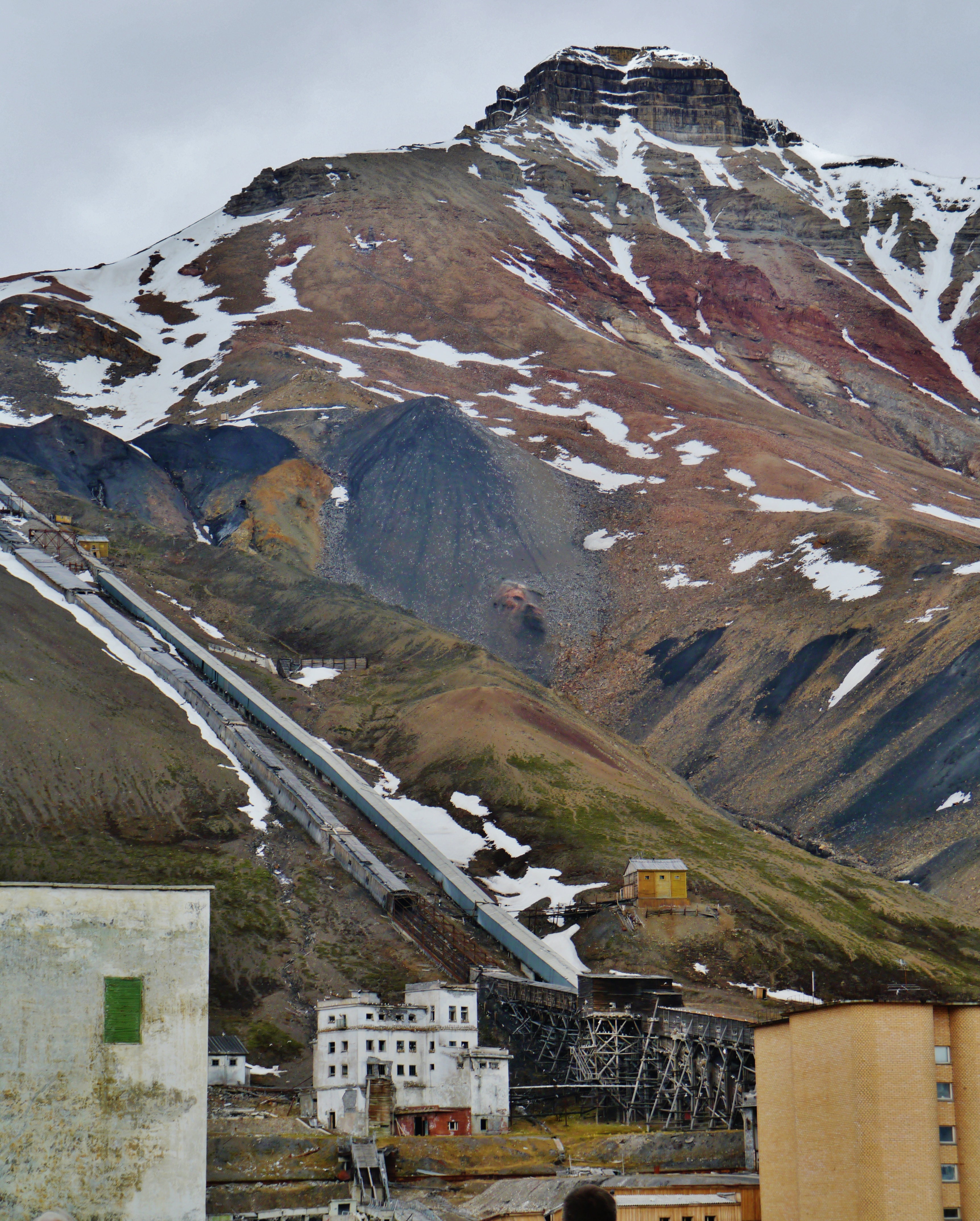 Mine in Pyramiden, Spitsbergen, Norway